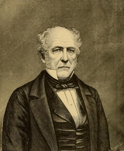 Portrait of New York state senator Alvin Bronson